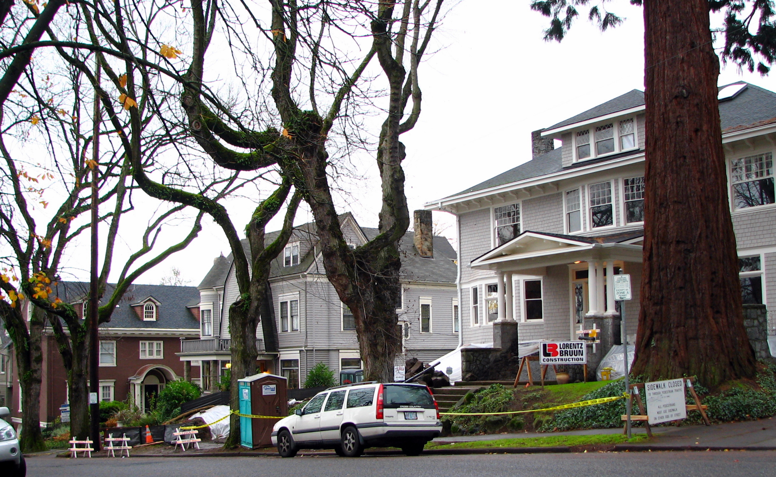 View of houses along the south side of Southwest Main Street between King Avenue and St. Clair Avenue, in the King's Hill Historic District. Houses pictured from left to right are: Charles K. Williams Residence (1908), 2168 SW Main Street Percy Blyth Residence (1901), 2176 SW Main Street Ralph Hoyt Residence (1904), 2188 SW Main Street All three houses are identified as contributing resources in the historic district.